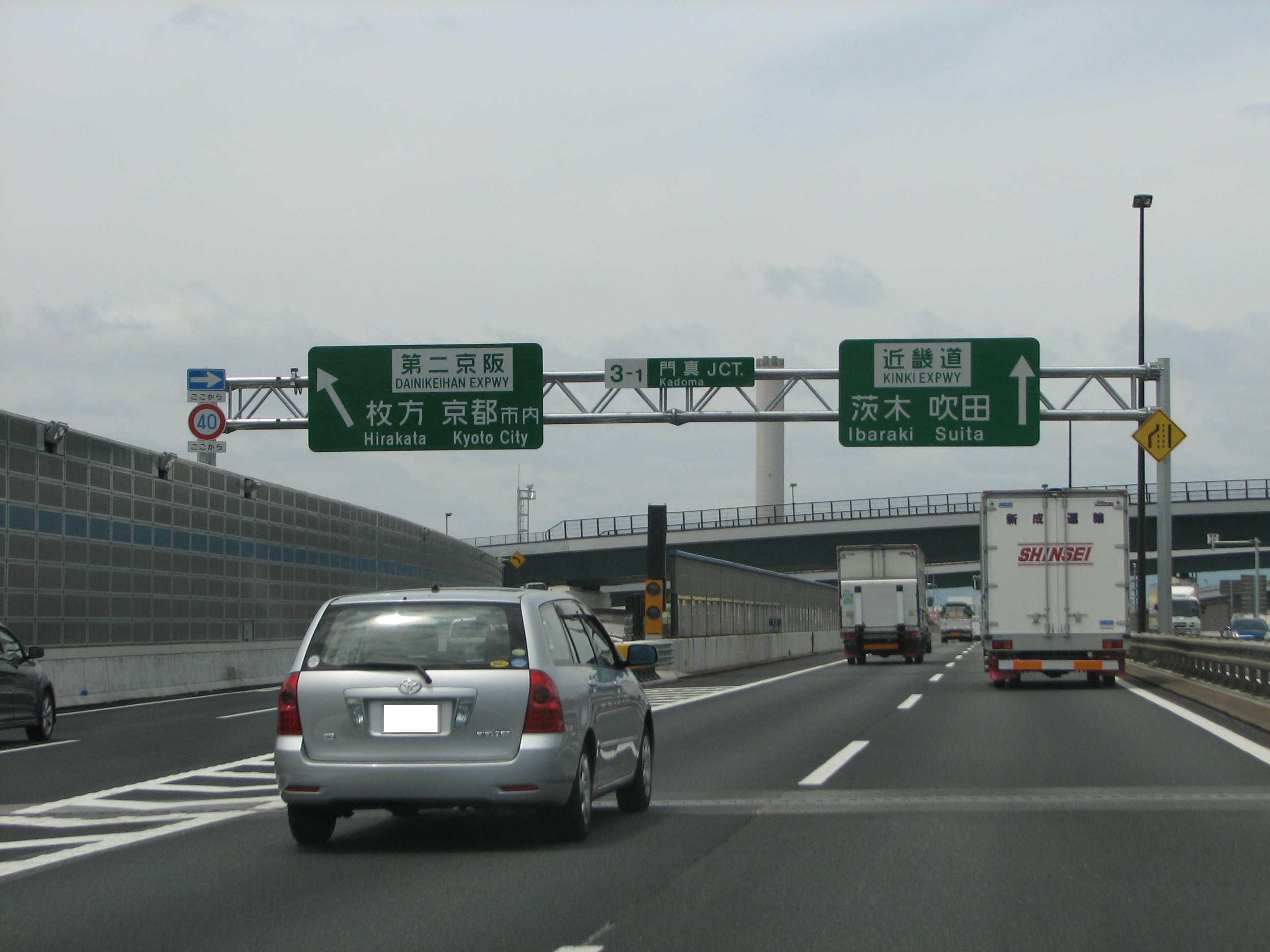 Kadoma JCT (for Suita)